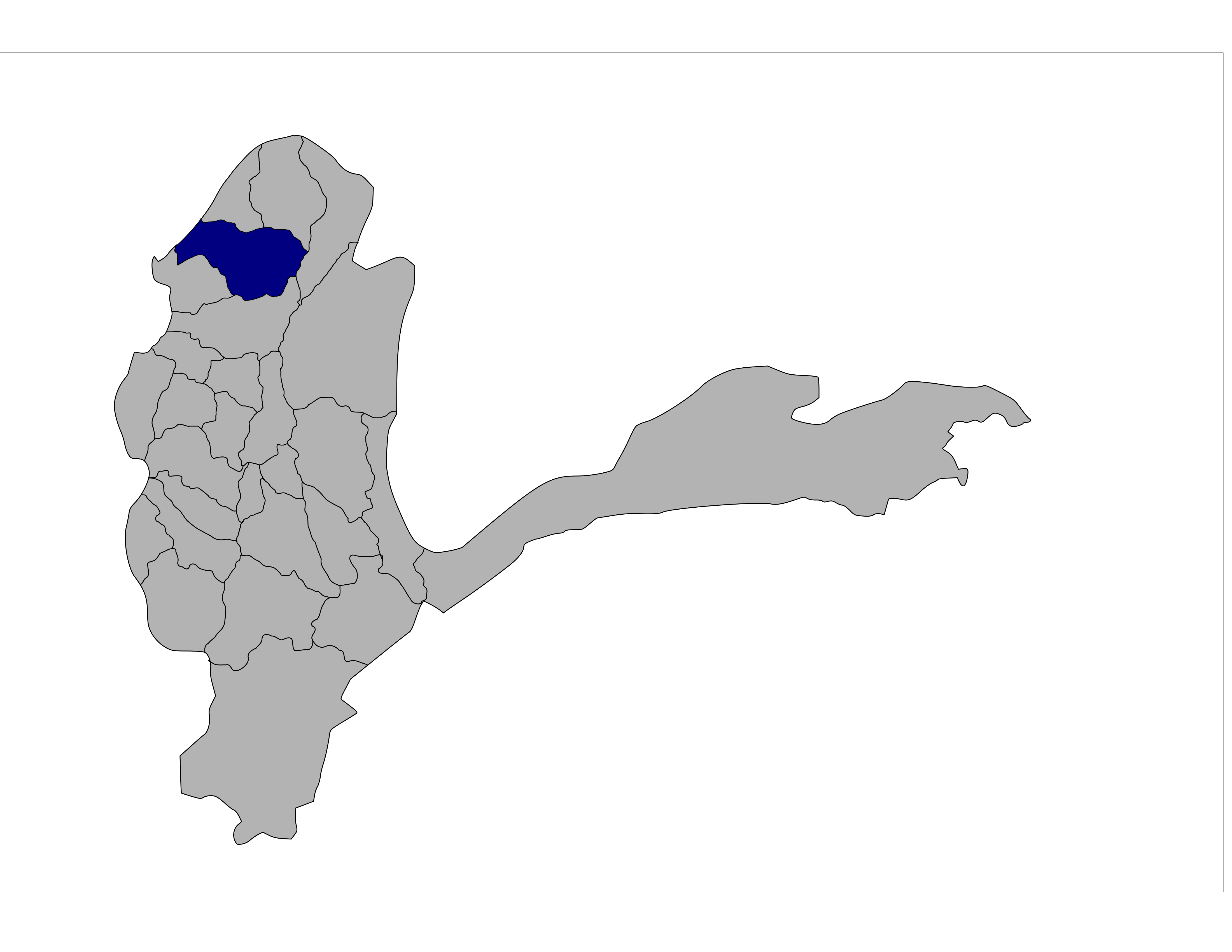 Shows the boundaries of Kofab District, Badakhshan Province, Afghanistan.